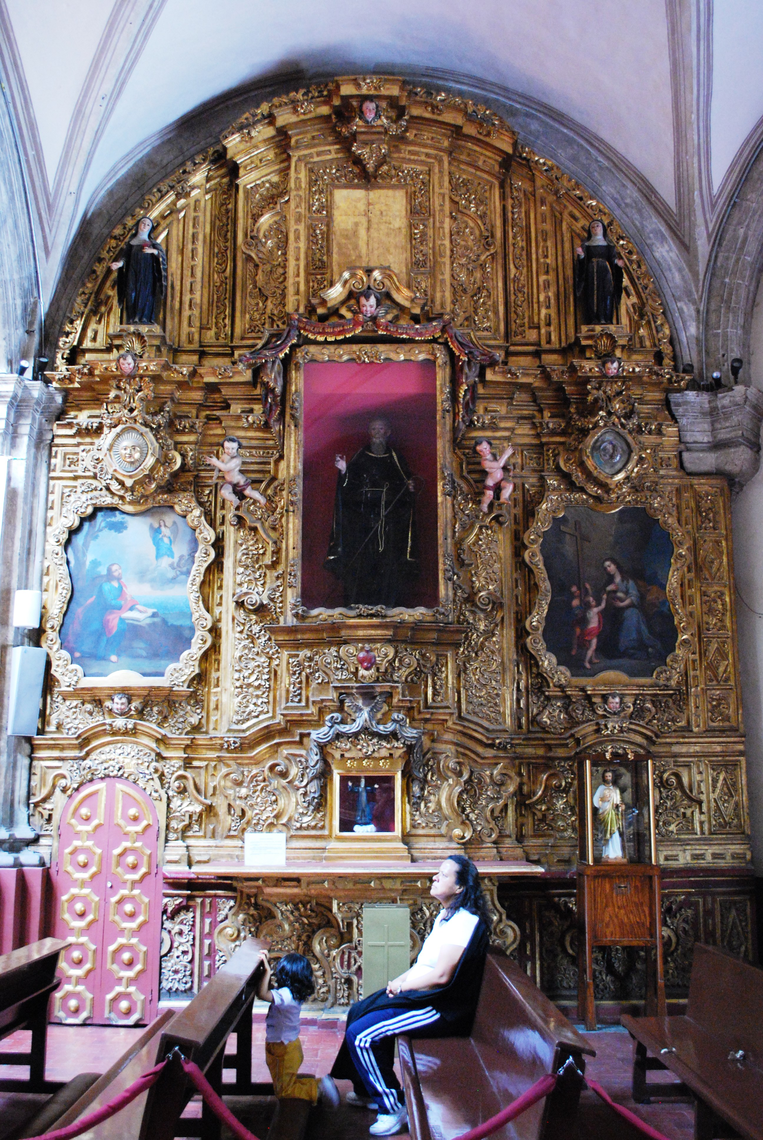 Altar of Saint Anthony the Great at the La Enseñanza Church on Donceles Street in the historic center of Mexico City